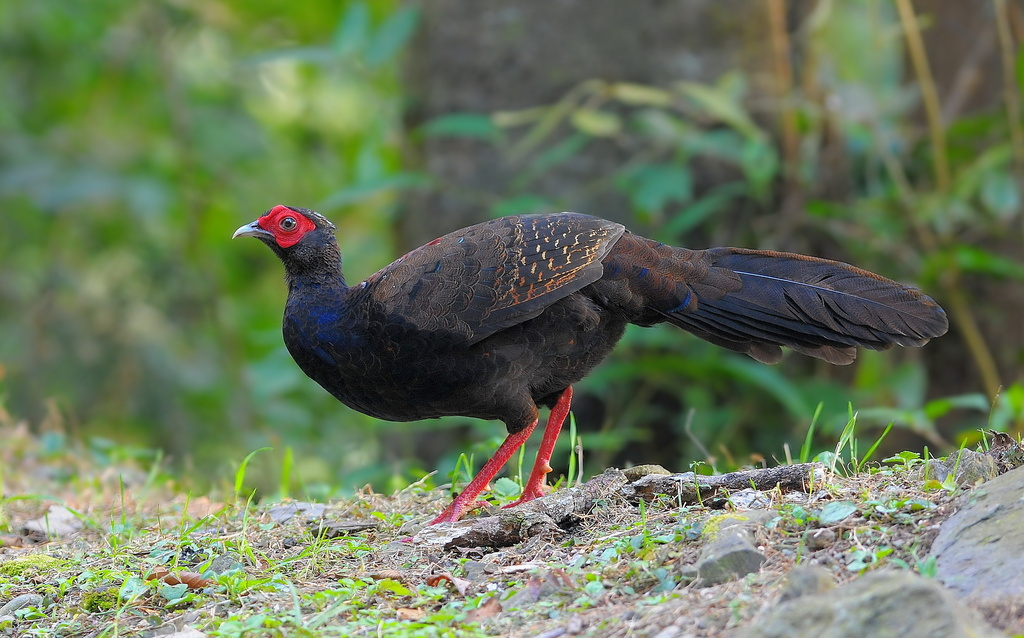 Taiwan Blue Pheasant (Lophura swinhoii), juvenile male Bân-lâm-gú: Huâ-ke. 華雞